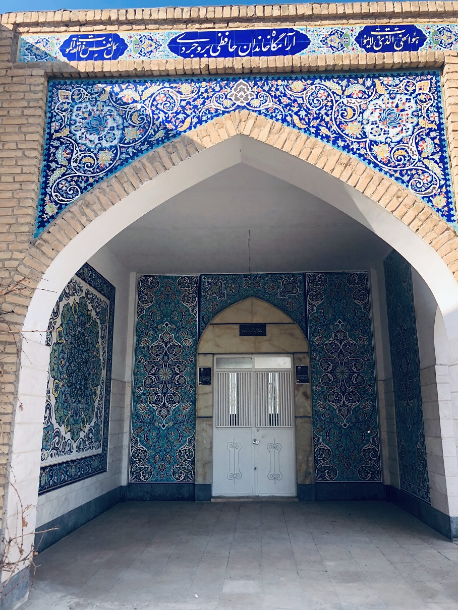 Hafezi Tomb